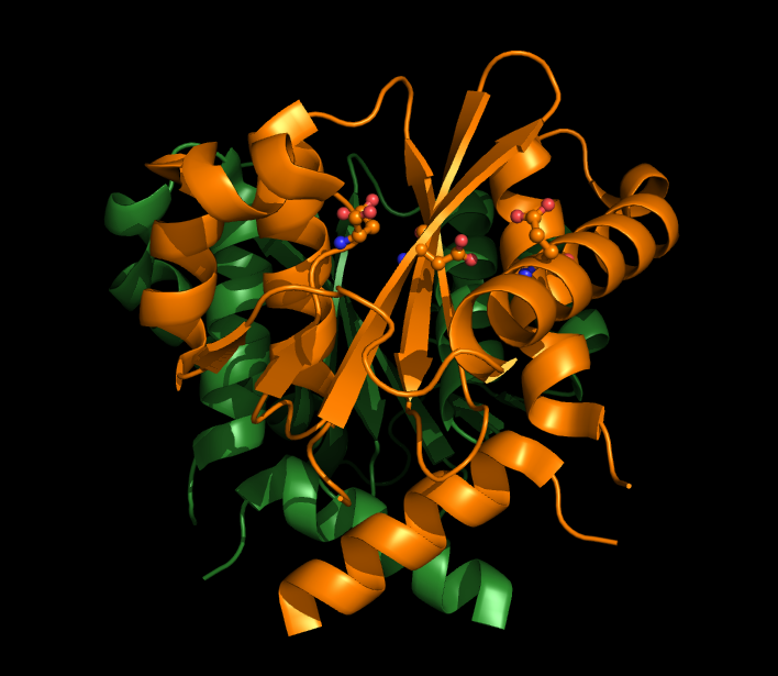 Cartoon Structure of HIV enzyme; See Template:UniProt[752–1143]